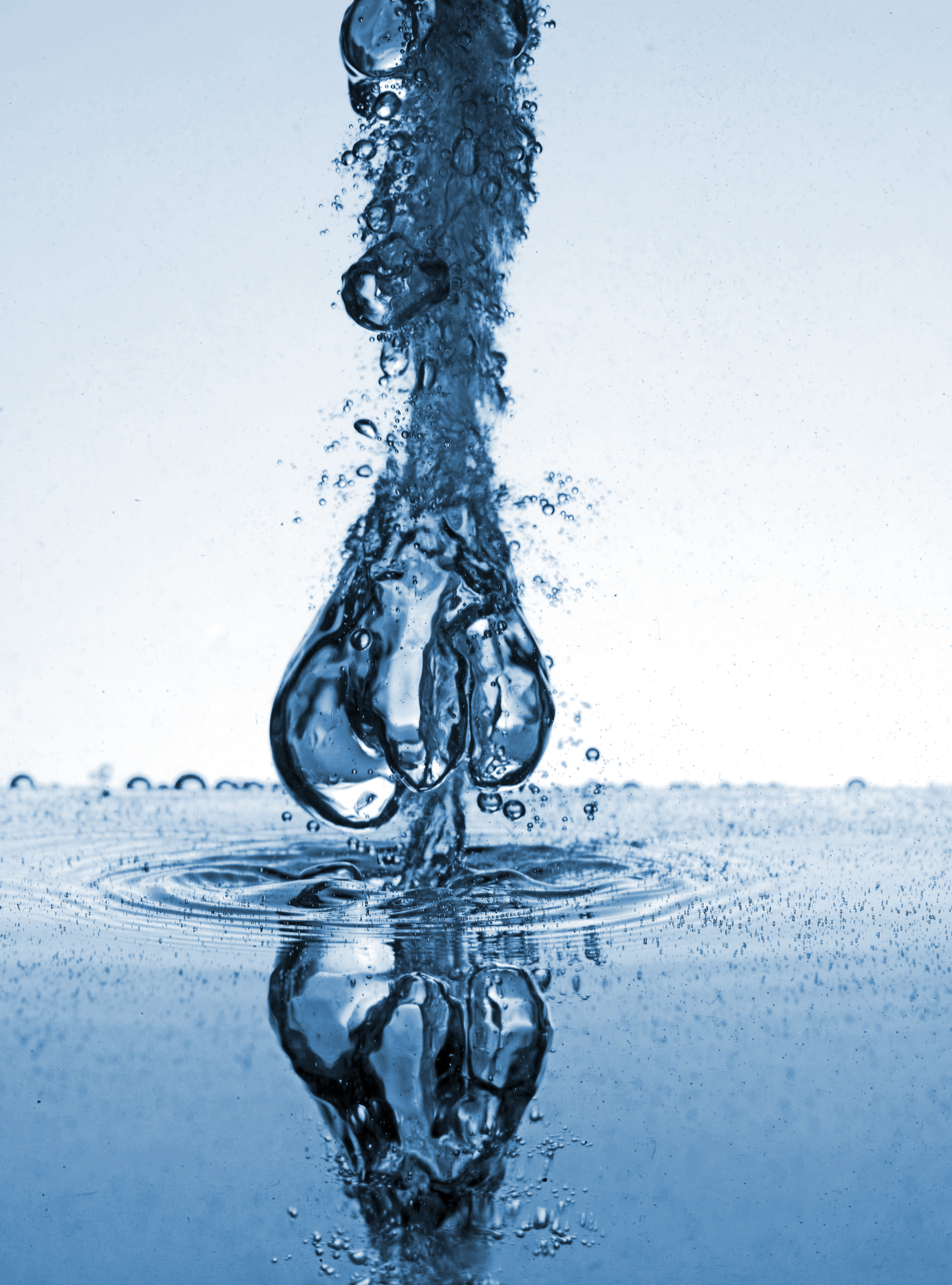 Water Splash